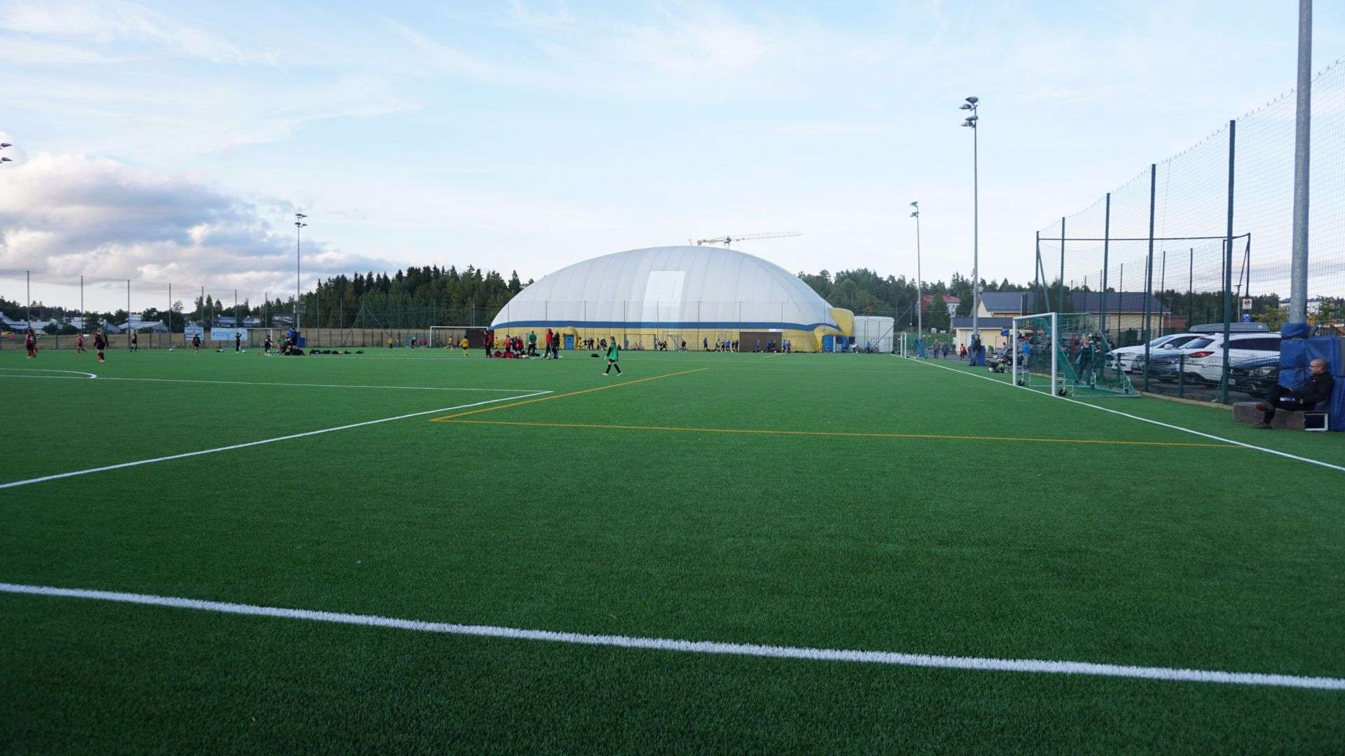 Klaukkalan tekonurmikenttä.